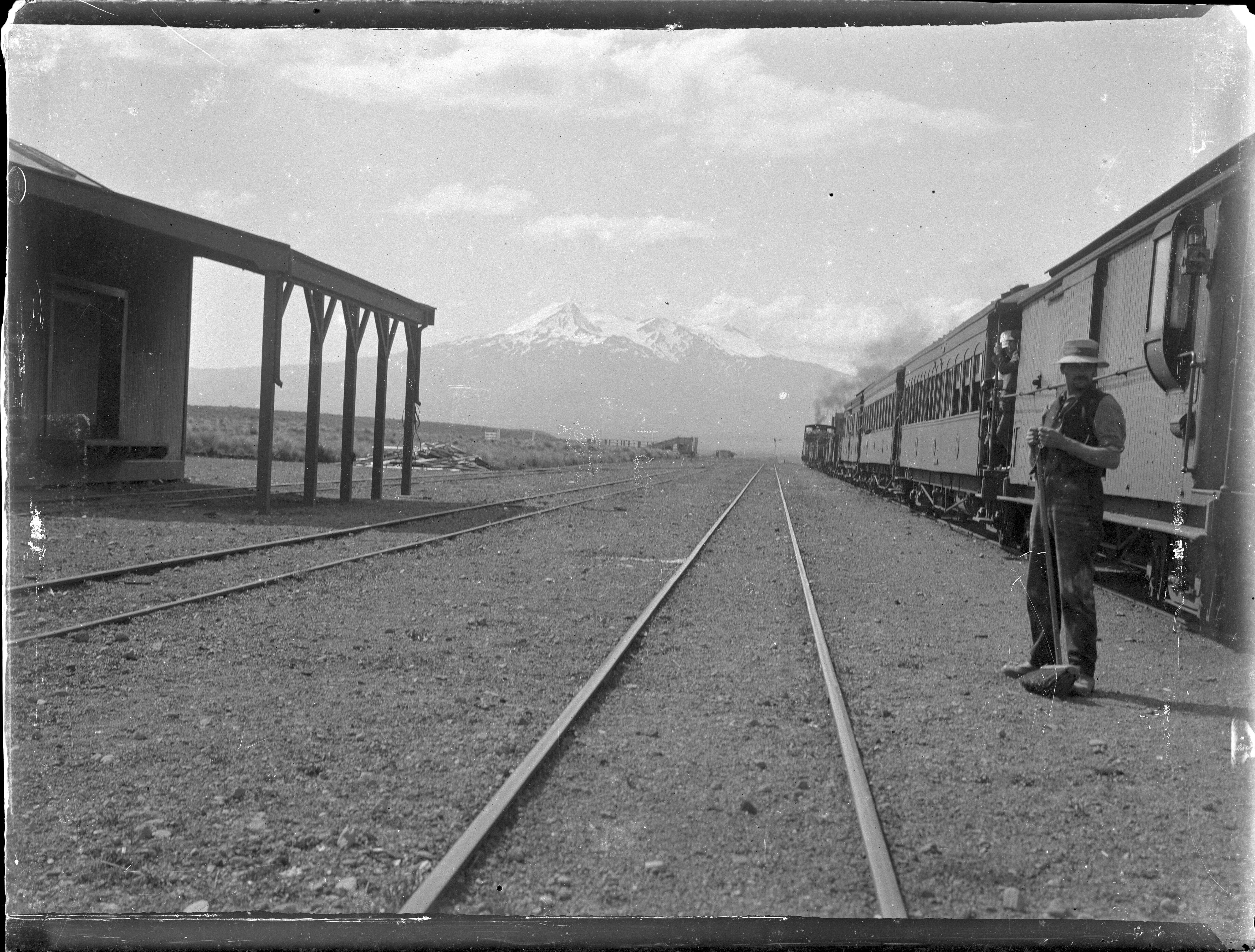 View along a train stopped at Waiouru Railway Station, railway track in the centre, and the corner of a station building on the left. Mount Ruapehu is in the background, and a railway employee is standing by the train with a broom. Taken by Albert Percy Godber circa 1930s.